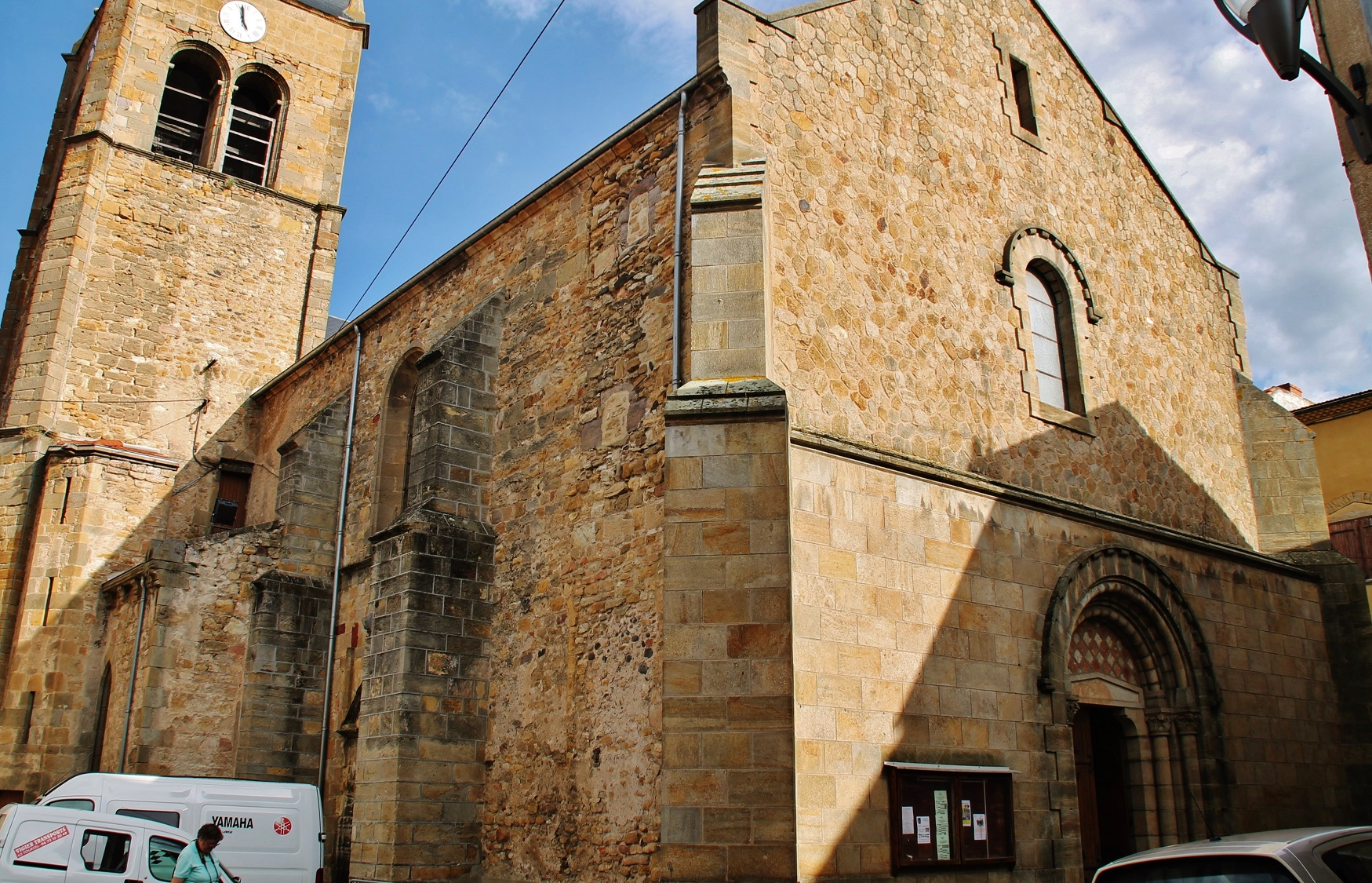 église St Germain